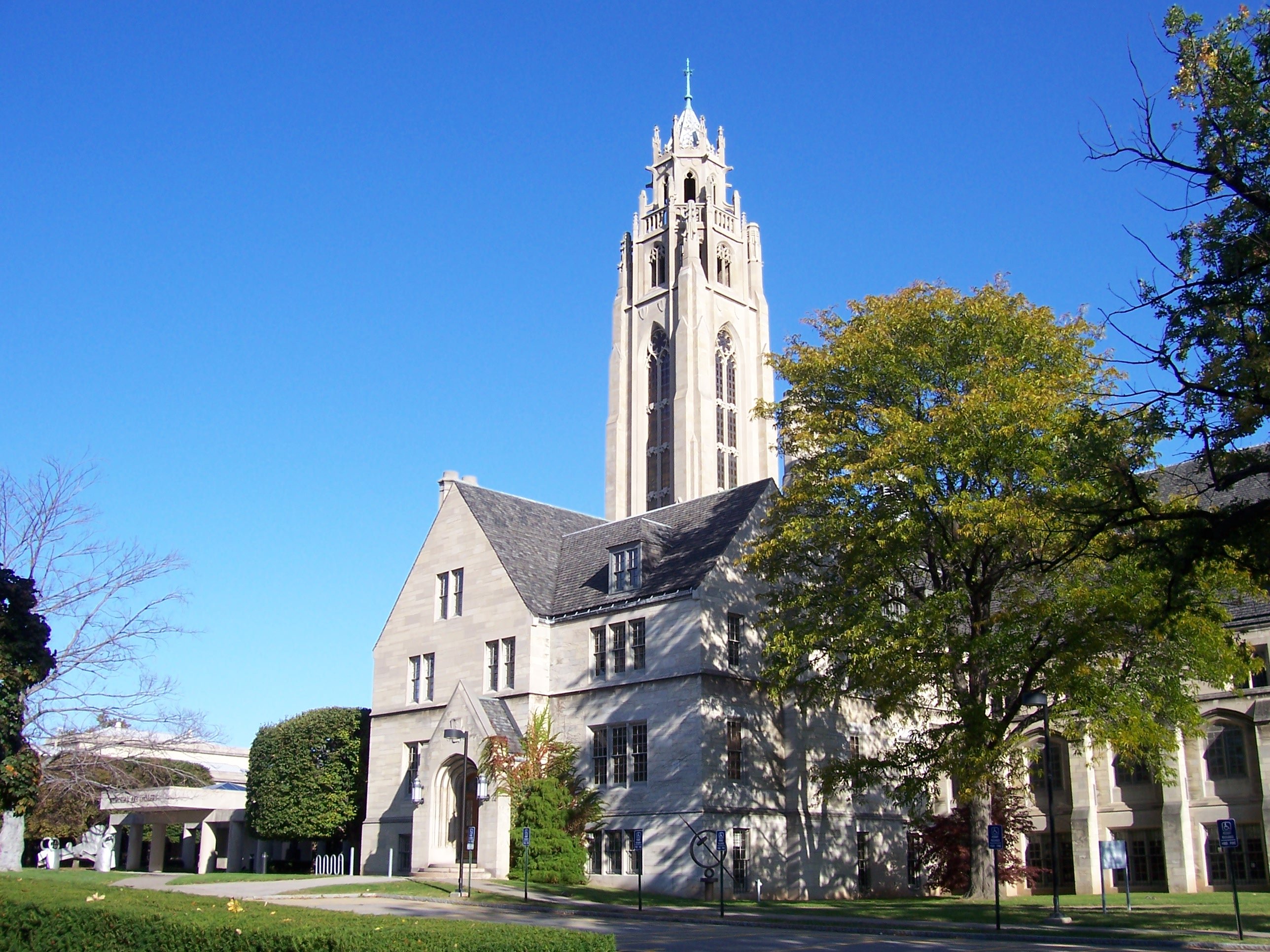 East side of the Cutler Union wing of the Memorial Art Gallery